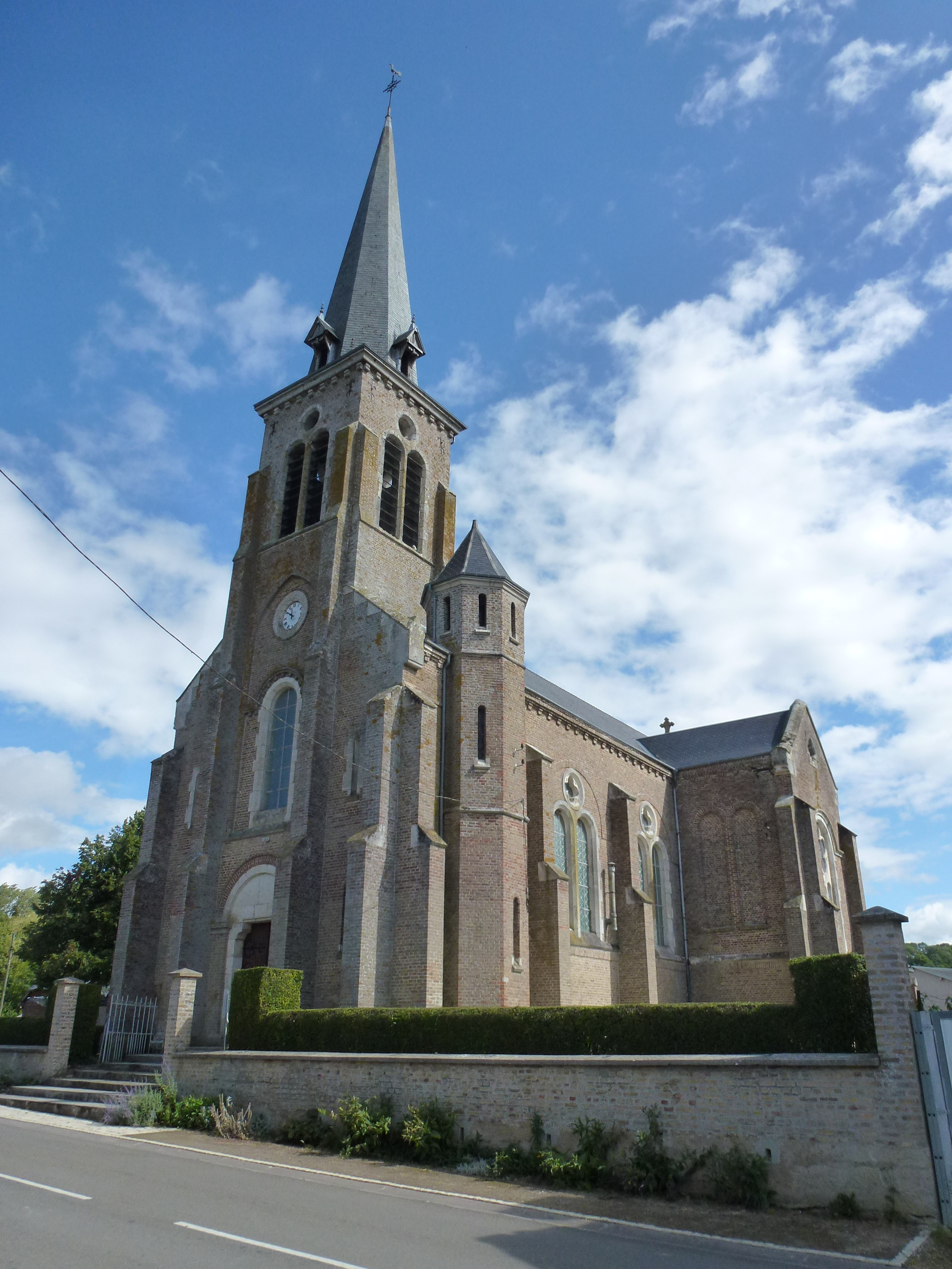 Remaucourt (Ardennes) église de la Nativité